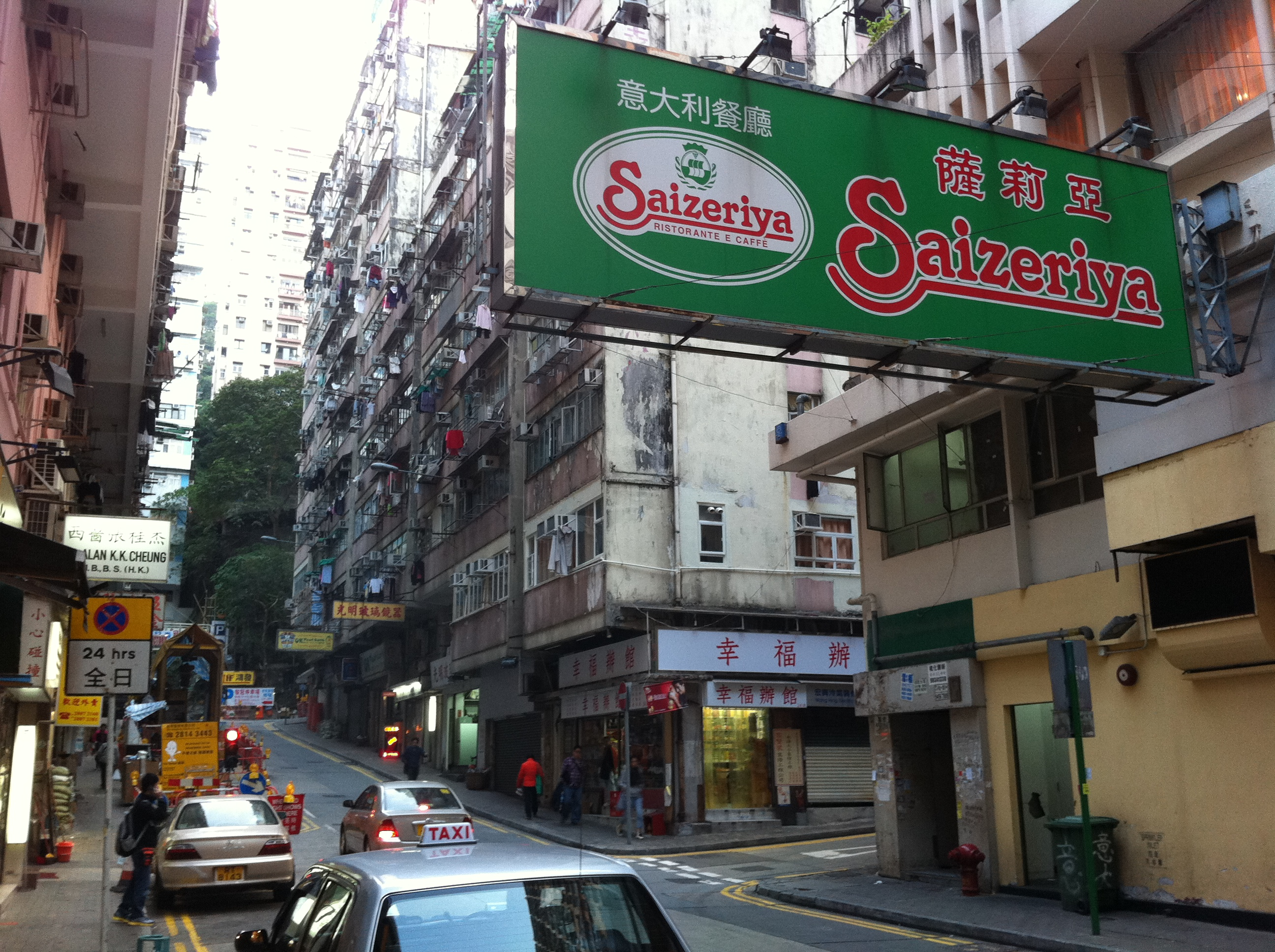 薩莉亞 新都城大廈, mall shop in Metropole Building, North Point, Hong Kong